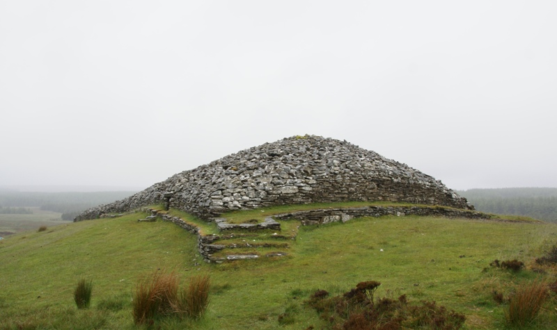 Grey Cairns of Camster, Caithness, Scotland - Camster Long Cairn, exterior view from the north